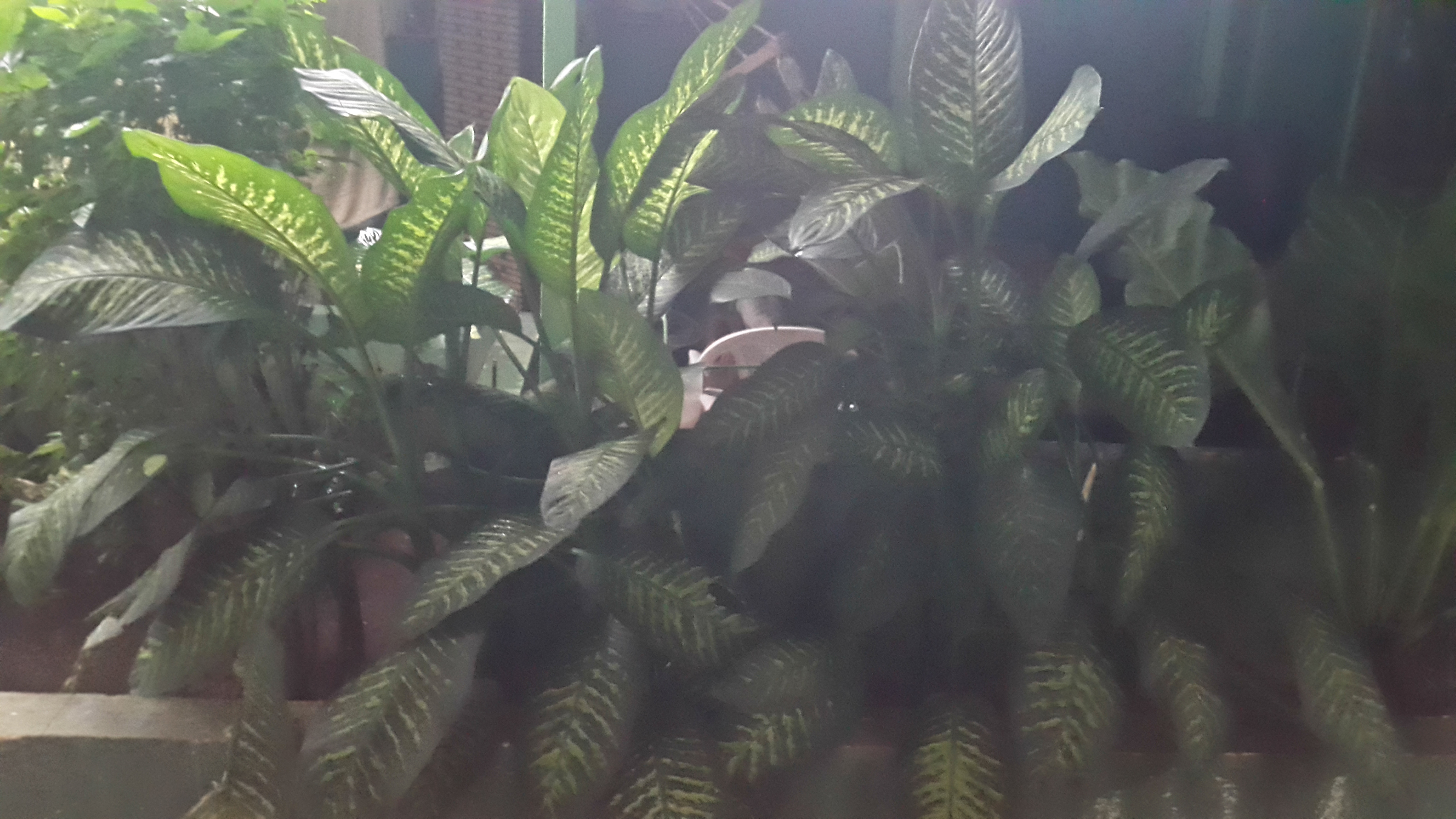 Diffenbachia in a house in Costa Rica